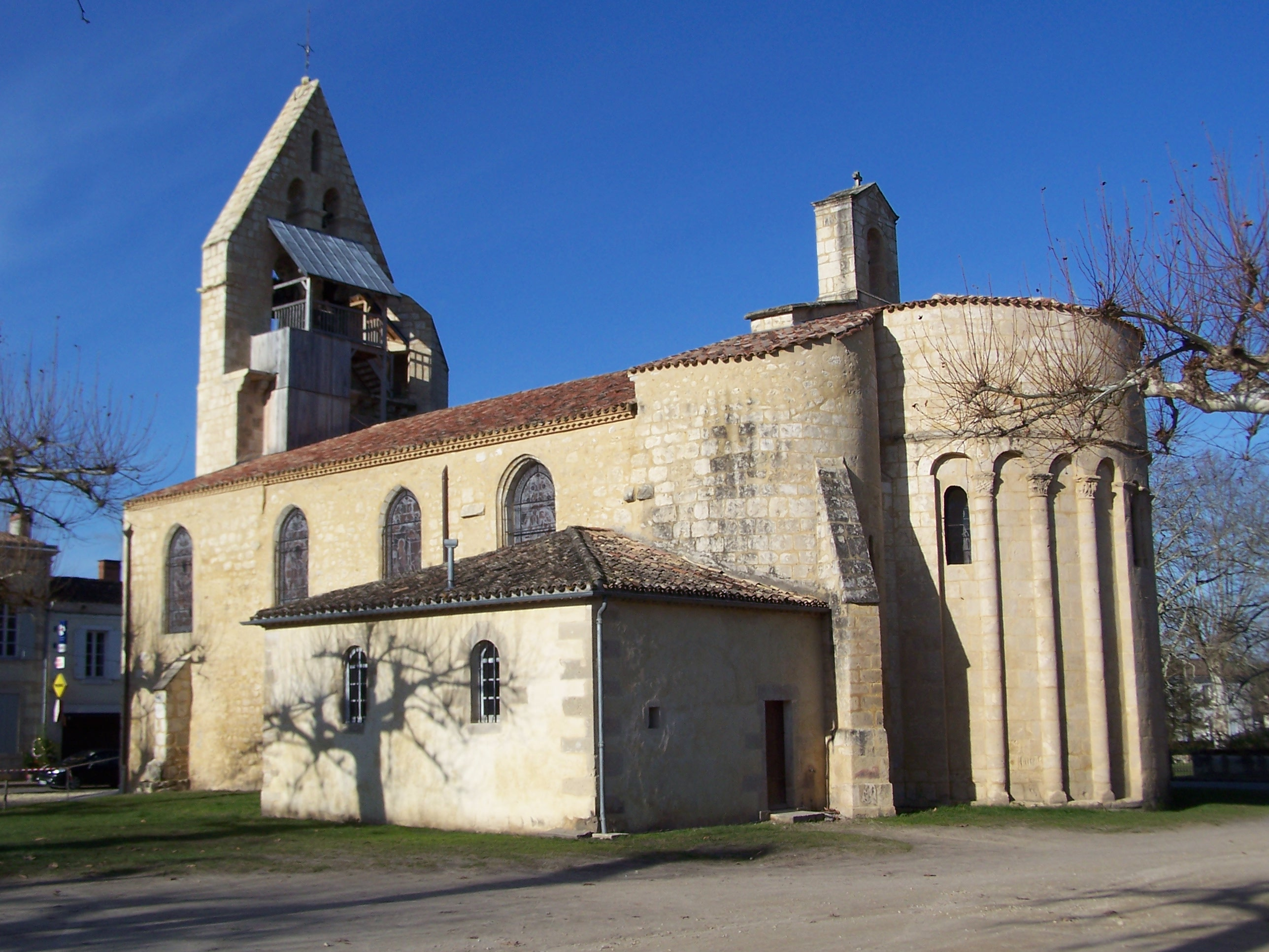 Church Saint-Pierre-ès-Liens of Préchac (Gironde, France)